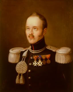 Kolonel Johannes Baptista Cleerens, 1785-1850.